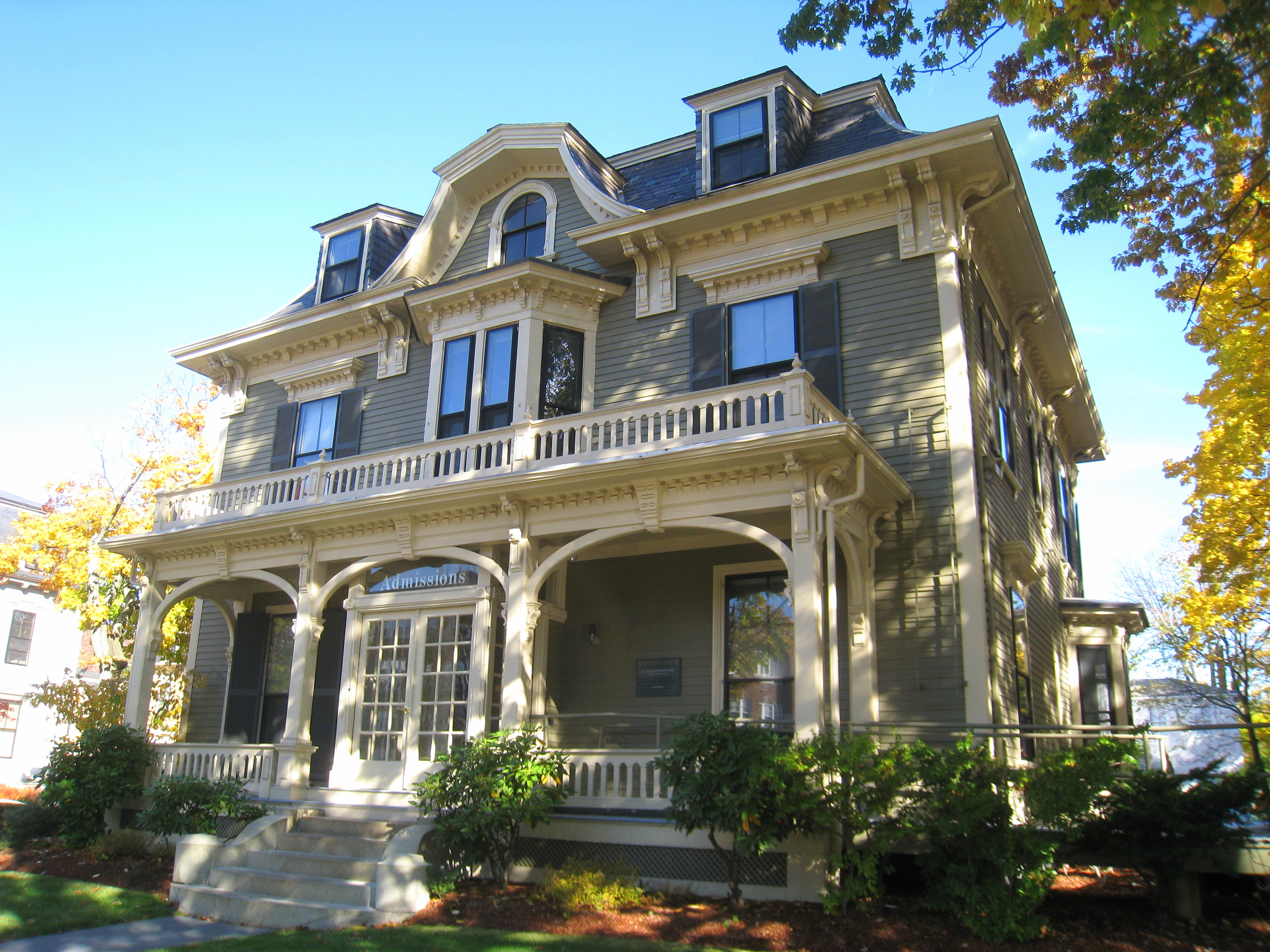 Lesley College Admissions Building, Lesley University, Cambridge, Massachusetts, USA.